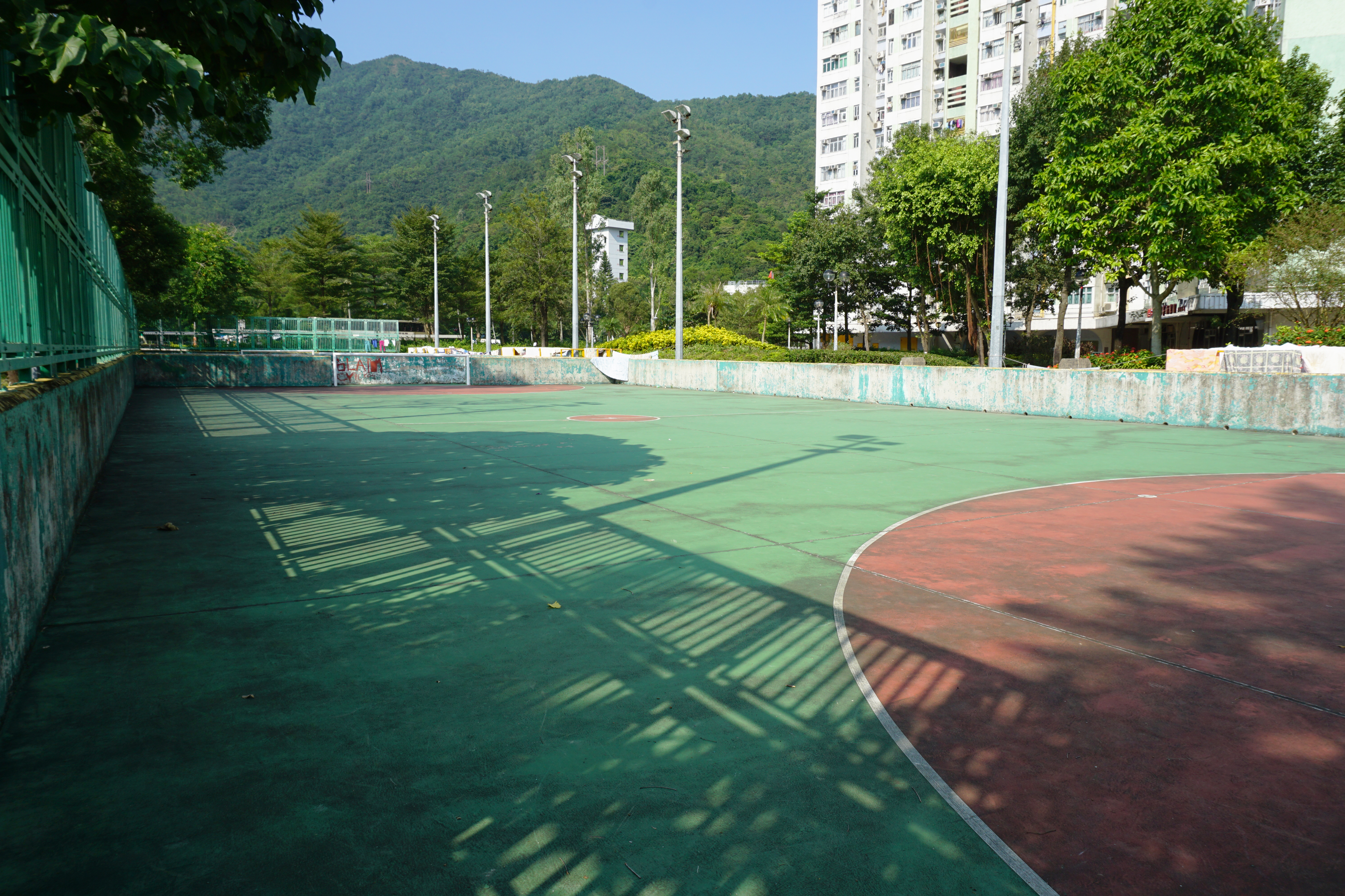 Po Lam Estate in Po Lam, Hong Kong.